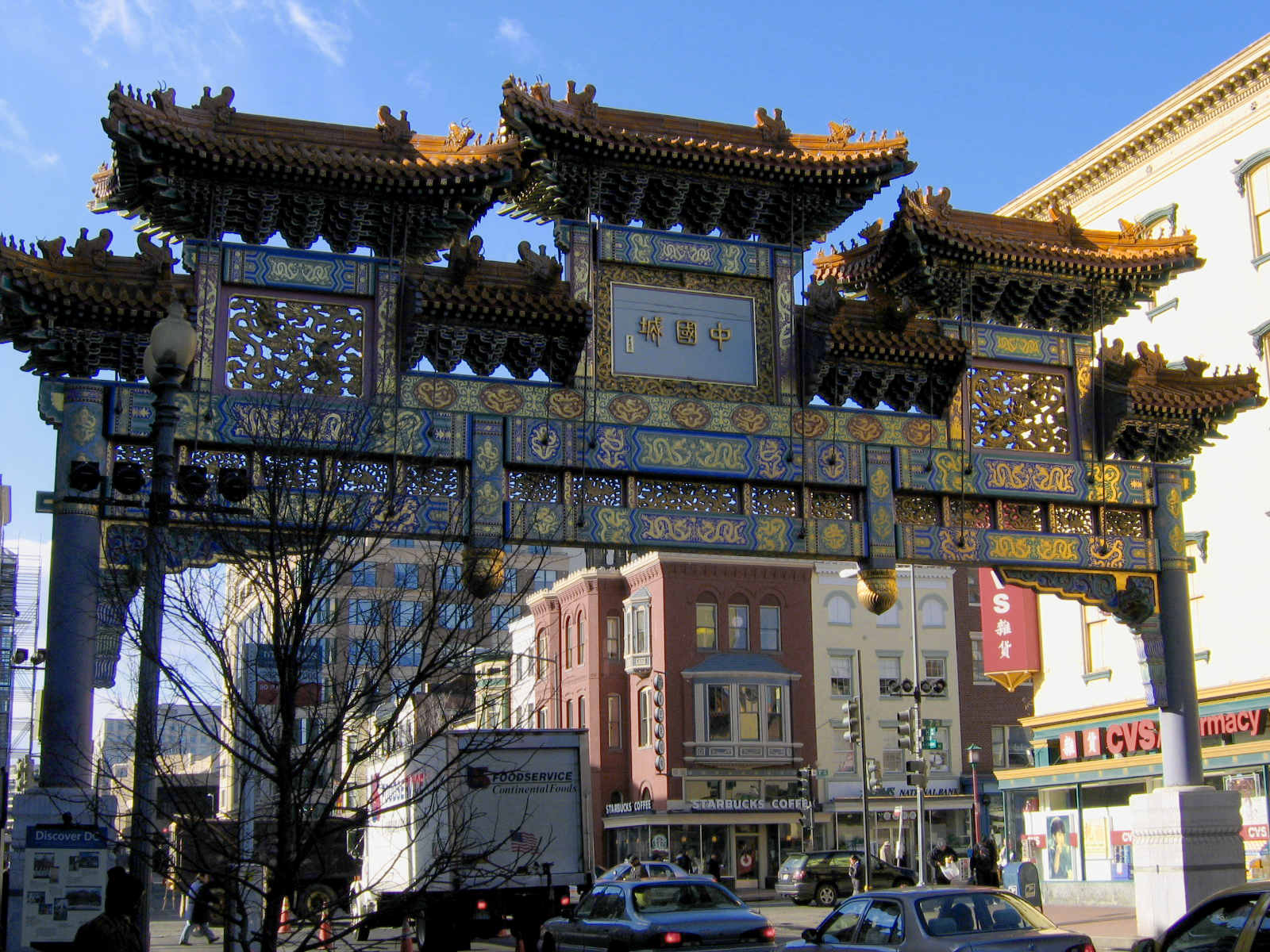 "Friendship Arch" in Chinatown, Washington, D.C. View west down H Street.